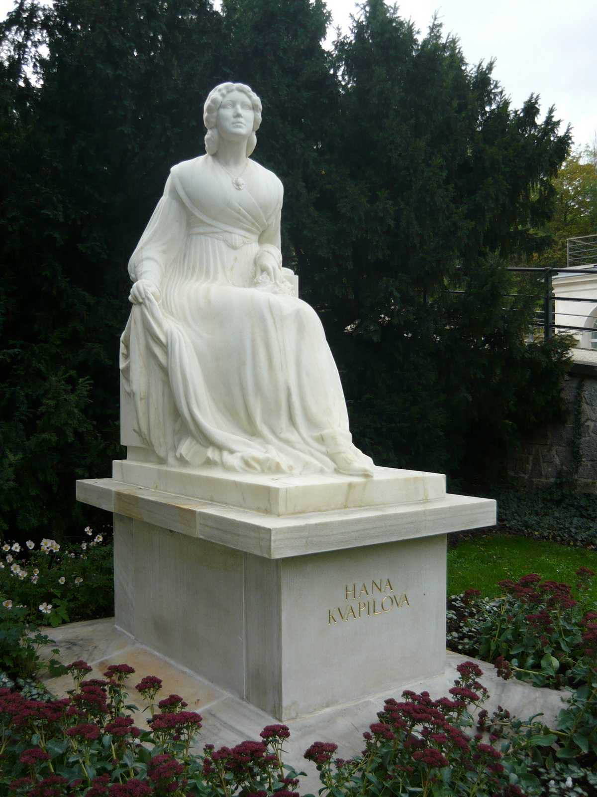 Monument of czech stage actress Hana Kvapilová (1860–1907). Author of the statue: Jan Štursa, monument erected 1914 in Kinského zahrada, Prague